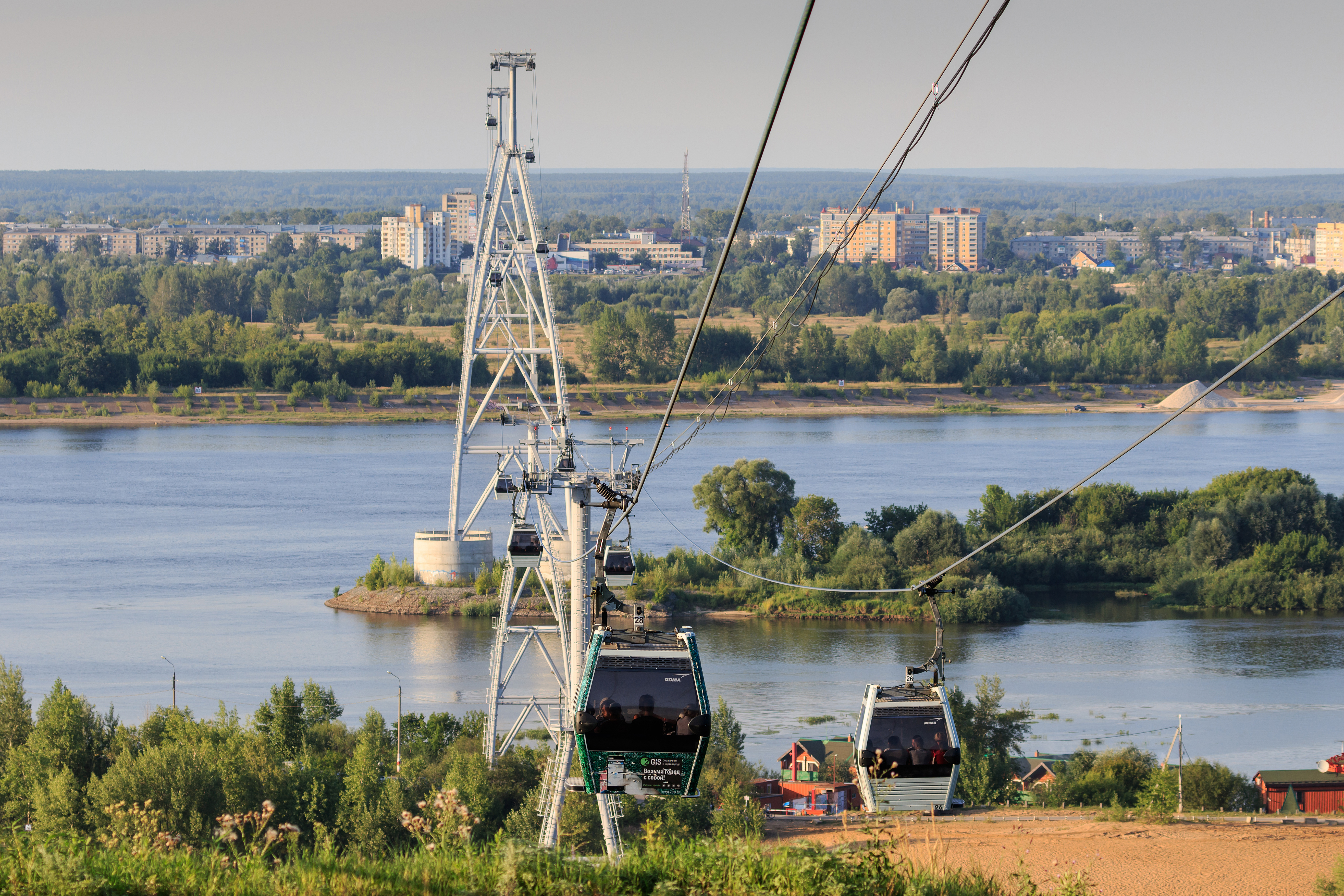 Nizhny Novgorod–Bor Volga cableway. View from the upper station. Nizhny Novgorod, Russia.